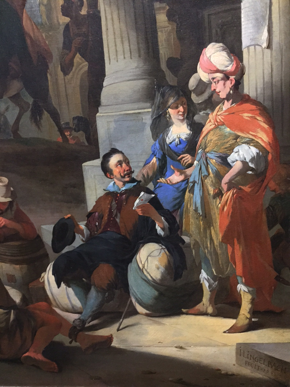 Johannes Lingelbach, Mediterranean harbour scene (detail, lower right corner), 1669, Städel, Frankfurt am Main